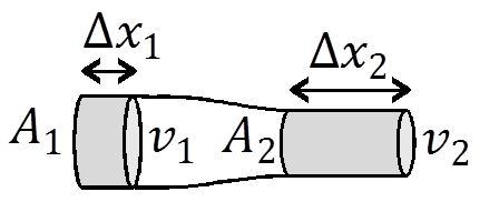 An incompressible fluid element speeds up if the area is constricted.